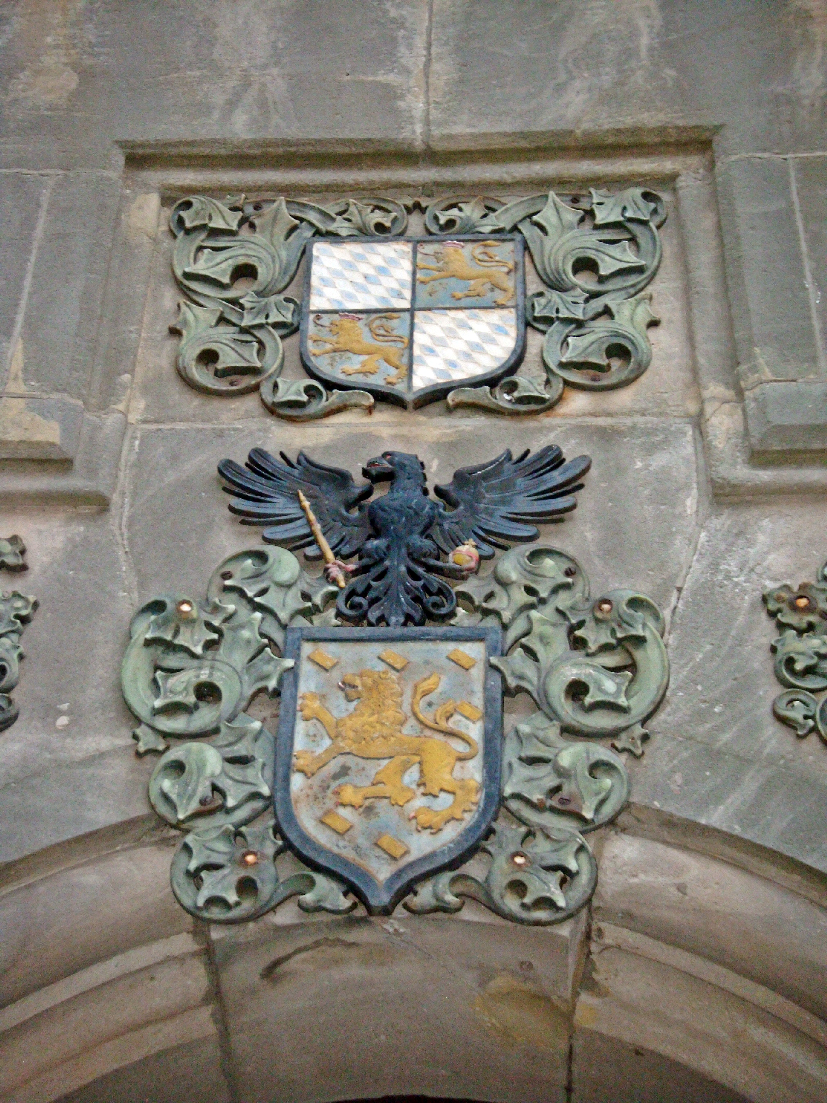 Königskreuzkapelle Göllheim, Wappen Adolf von Nassau und Pfalz